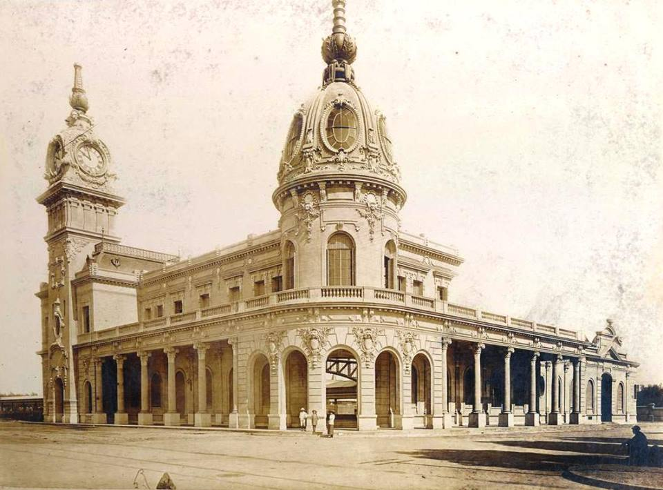 Mar del Plata railway station, built by the Great Southern Railway. The station was closed in 1949 to serve as bus terminus.